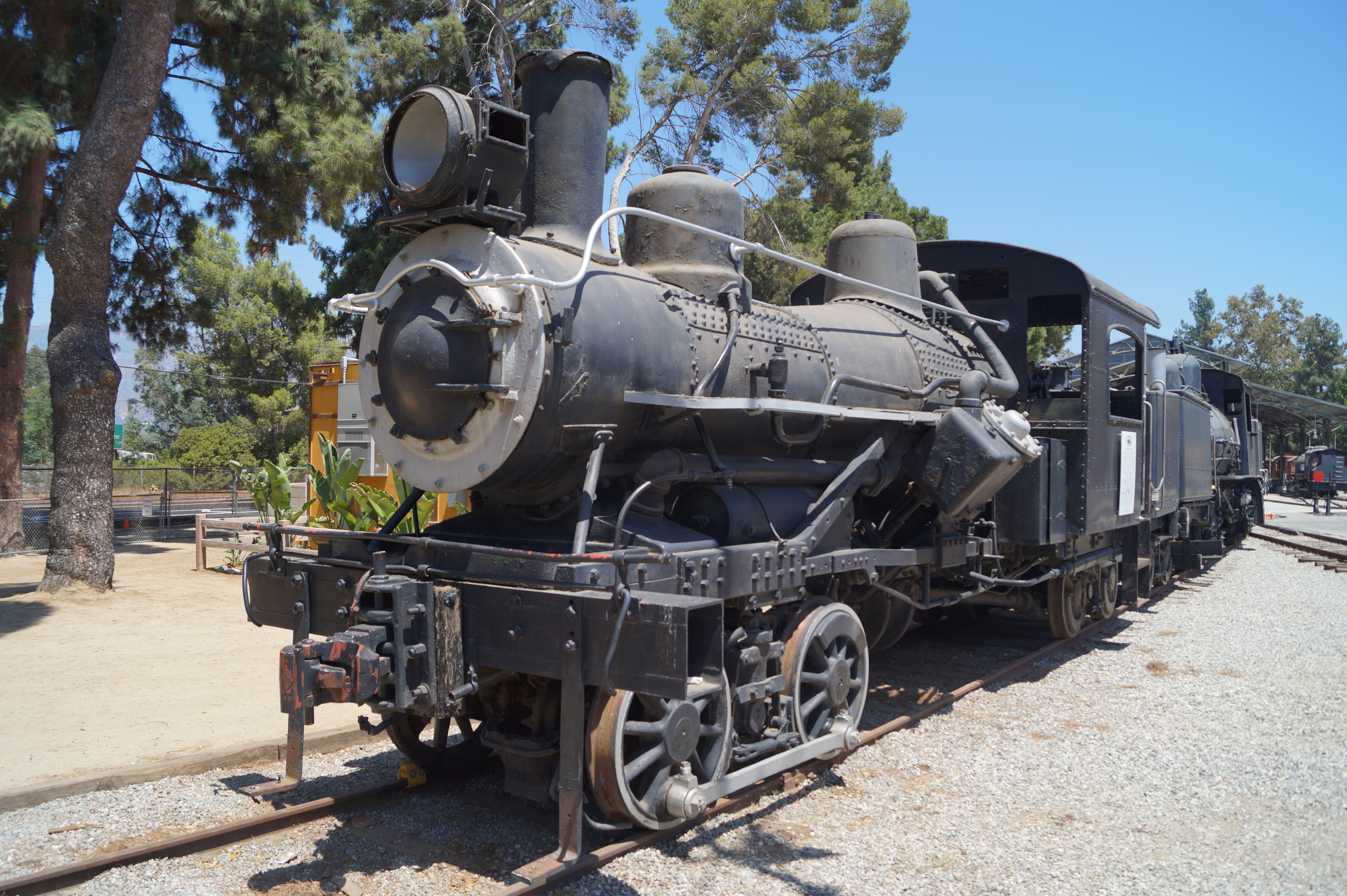 Travel Town Museum is a transport museum dedicated in the northwest corner of Los Angeles, California's Griffith Park. The history of railroad transportation in the western United States from 1880 to the 1930s is the primary focus of the museum's collection, with an emphasis on railroading in Southern California and the Los Angeles area.